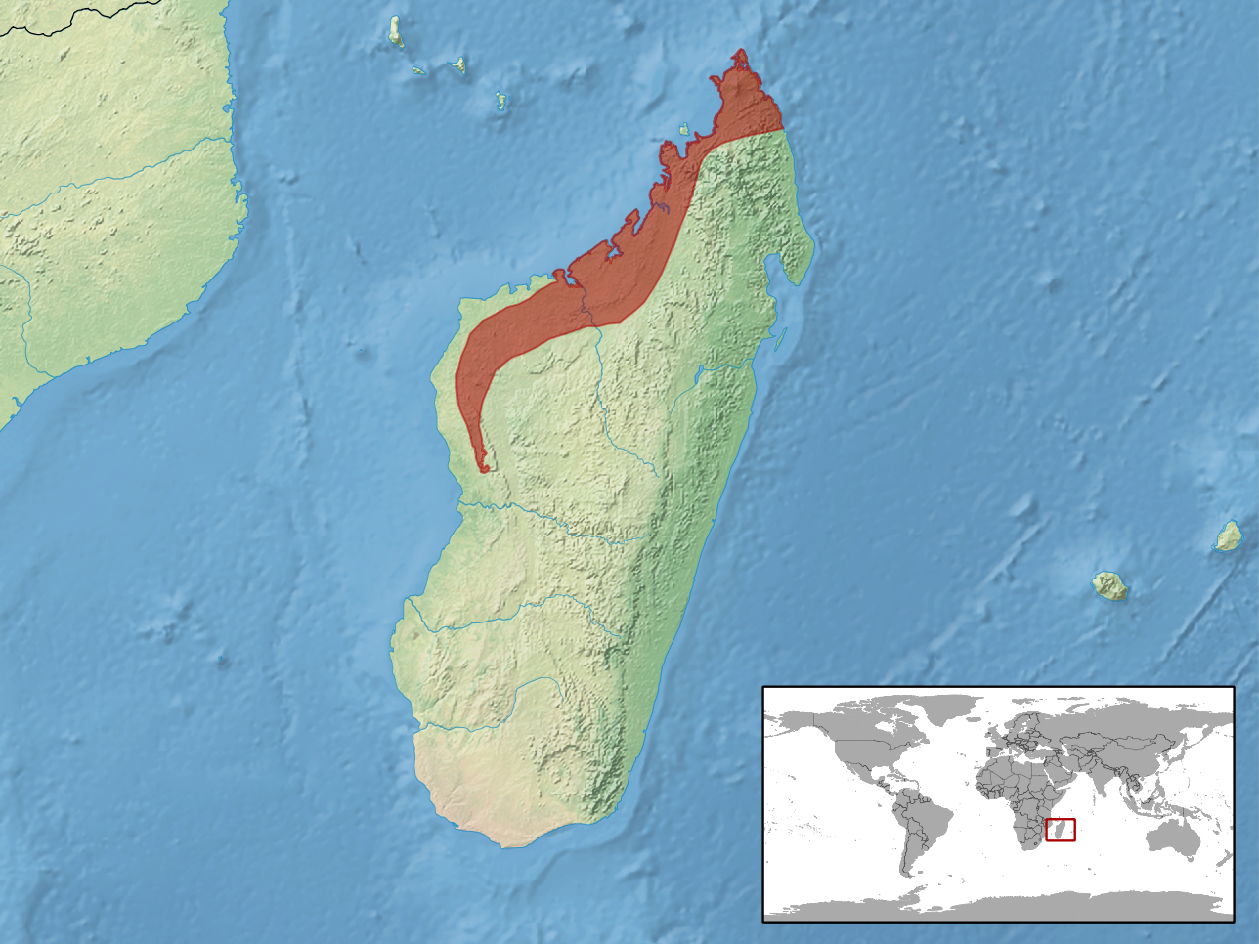 geographic distribution of Amphiglossus reticulatus